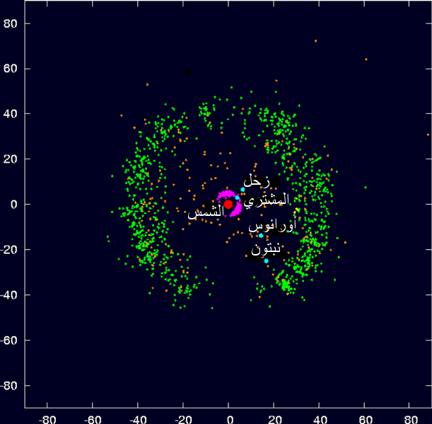 Red = The Sun Aquamarine = Giant Planet Green = Kuiper belt object Orange = Scattered disc object or Centaur Pink = Trojan of Jupiter Yellow = Trojan of Neptune Axes list distances in AU, projected onto the ecliptic, with ecliptic longitude zero being to the right, along the "x" axis). Positions are accurate for January 1st, 2000 (J2000 epoch) with some caveats: For planets, positions should be exact. For minor bodies, positions are extrapolated from other epochs assuming purely Keplerian motion. As all data is from an epoch between 1993 and 2007, this should be a reasonable approximation. Data from the Minor Planet Center[1] or Murray and Dermott[2] as needed. In the Kuiper Belt, radial "Spokes" of higher density, or gaps in particular directions are due to observational bias (i.e. where objects were searched for), rather than any real physical structure. References ↑ The MPC Orbit (MPCORB) Database. ↑ Carl D. Murray and Stanley F. Dermott (1999) Solar System Dynamics, Cambridge University Press ISBN: 0 521 57295.9. ISBN: 0 521 57295.9